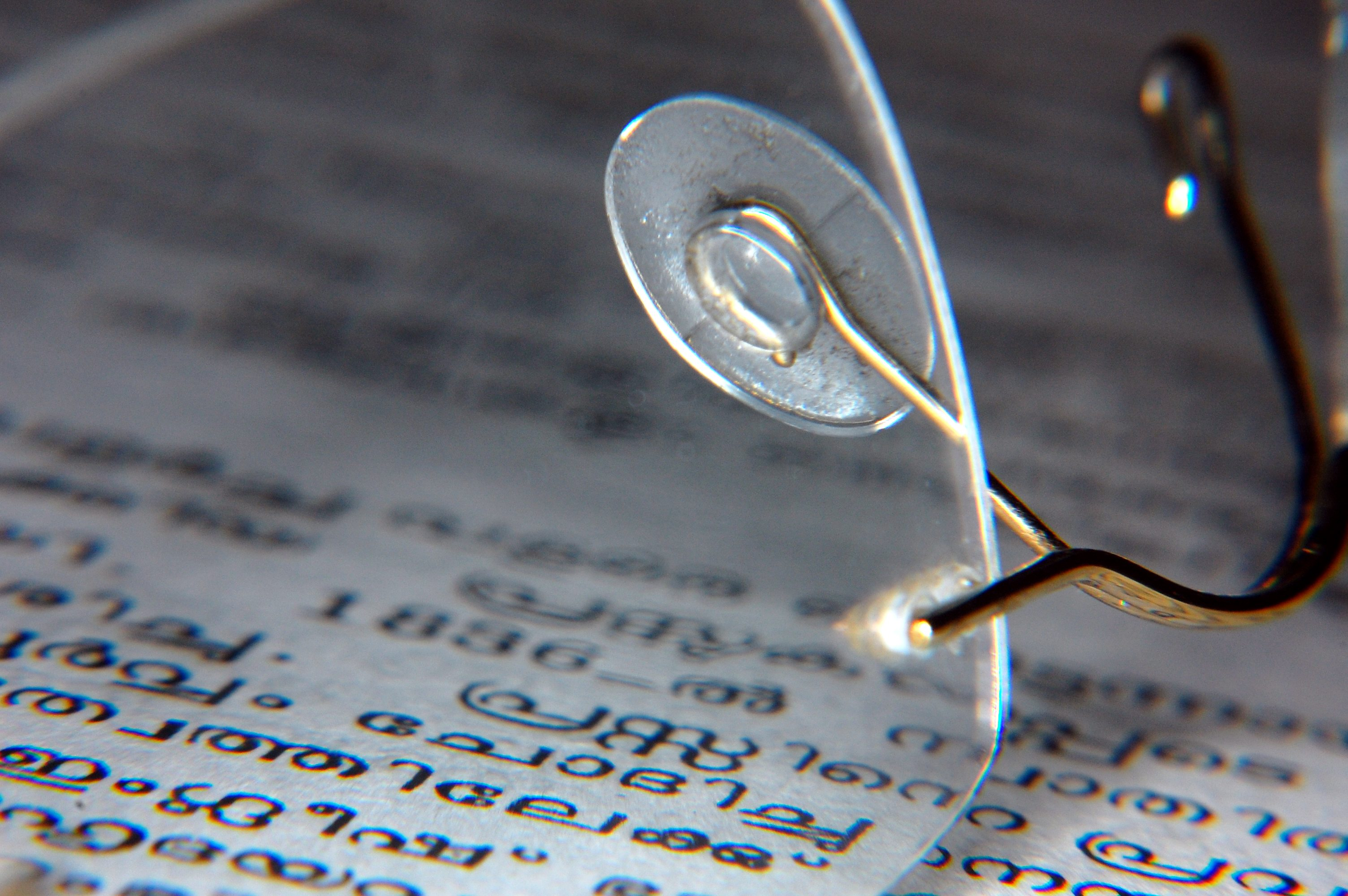 Malayalam-language typeface magnified by spectacles